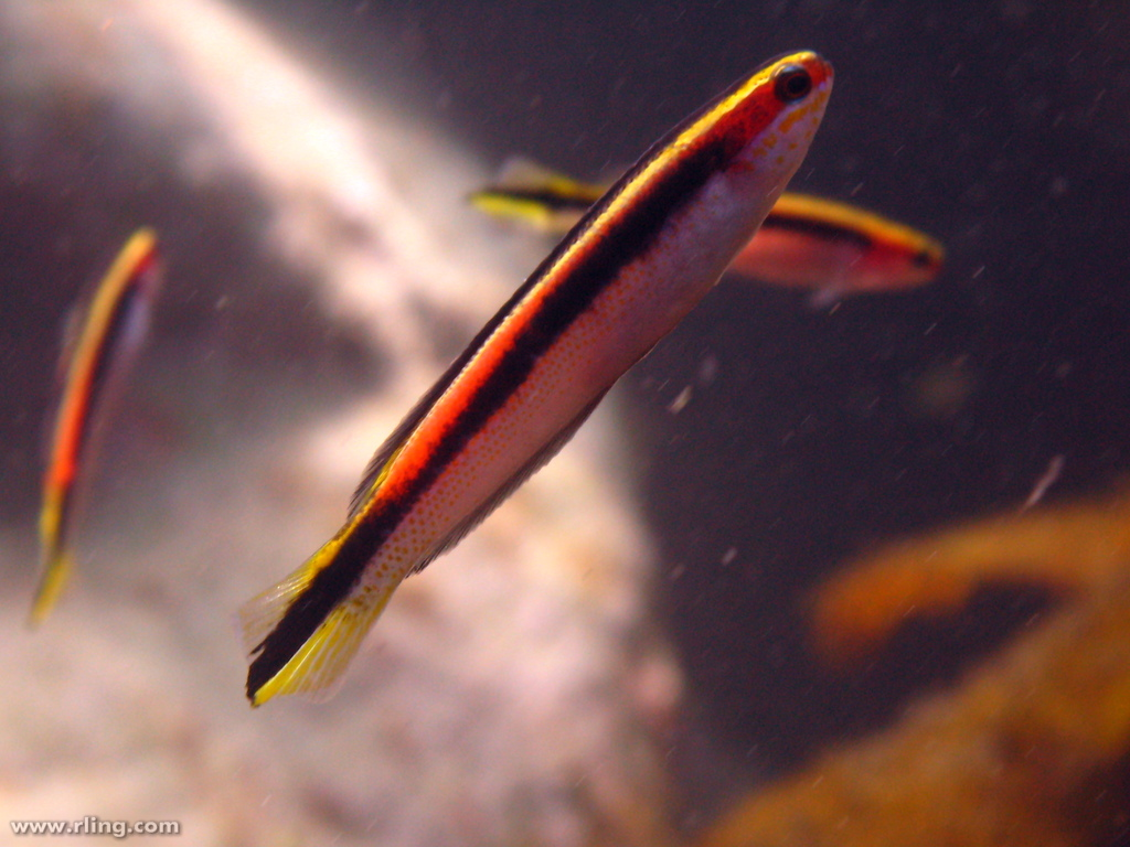 A small school of Eastern Hulafish (Trachinops taeniatus). Fairy Bower, Manly, NSW